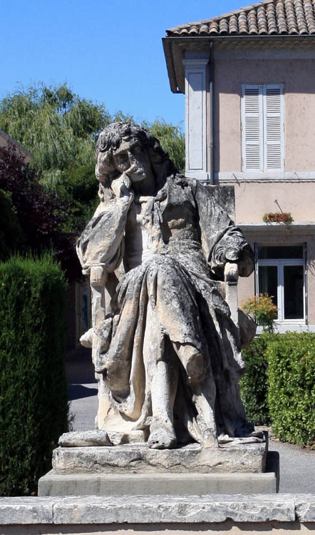 Town of Le Thor in Vaucluse, France